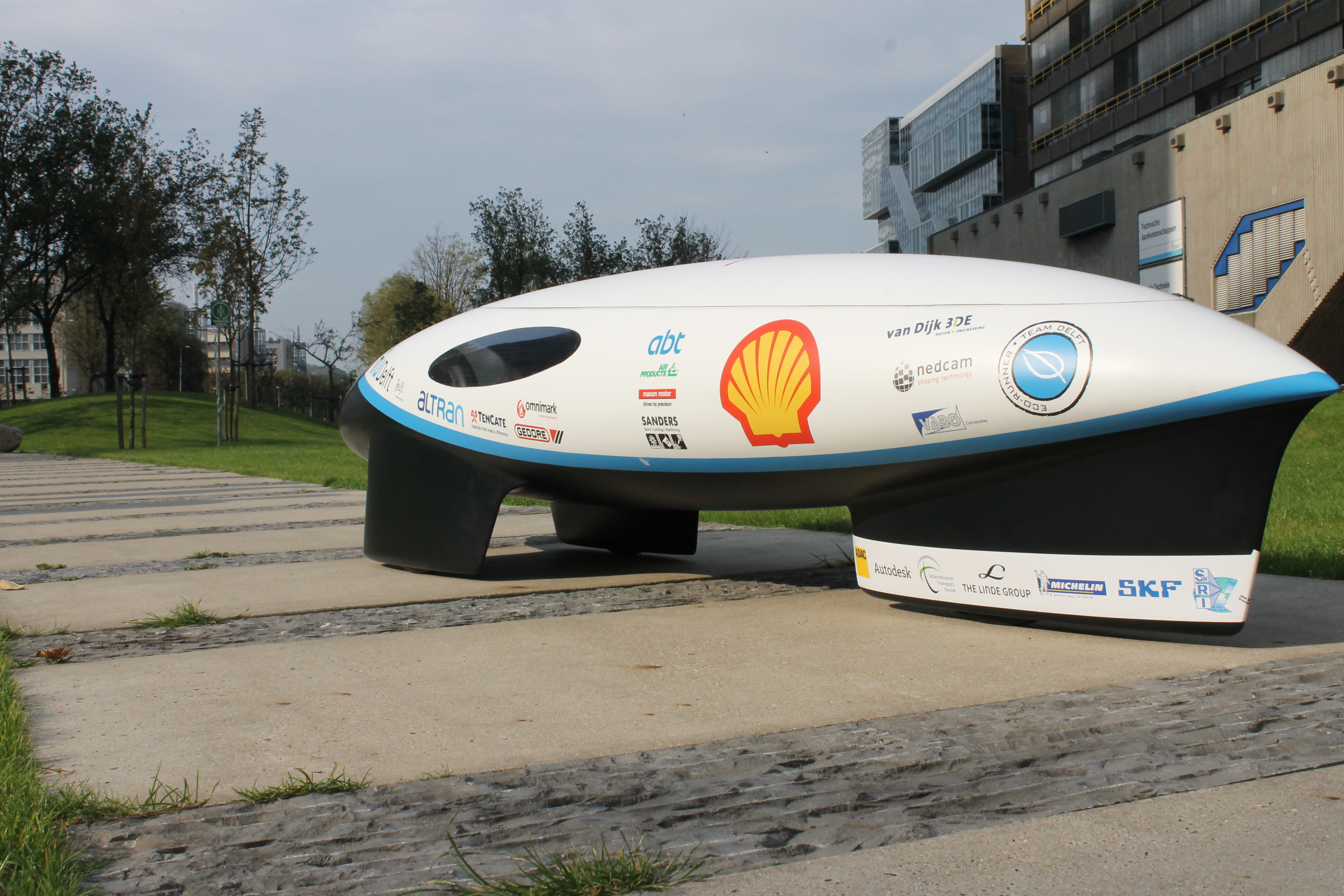 The photograph of Eco-Runner 3